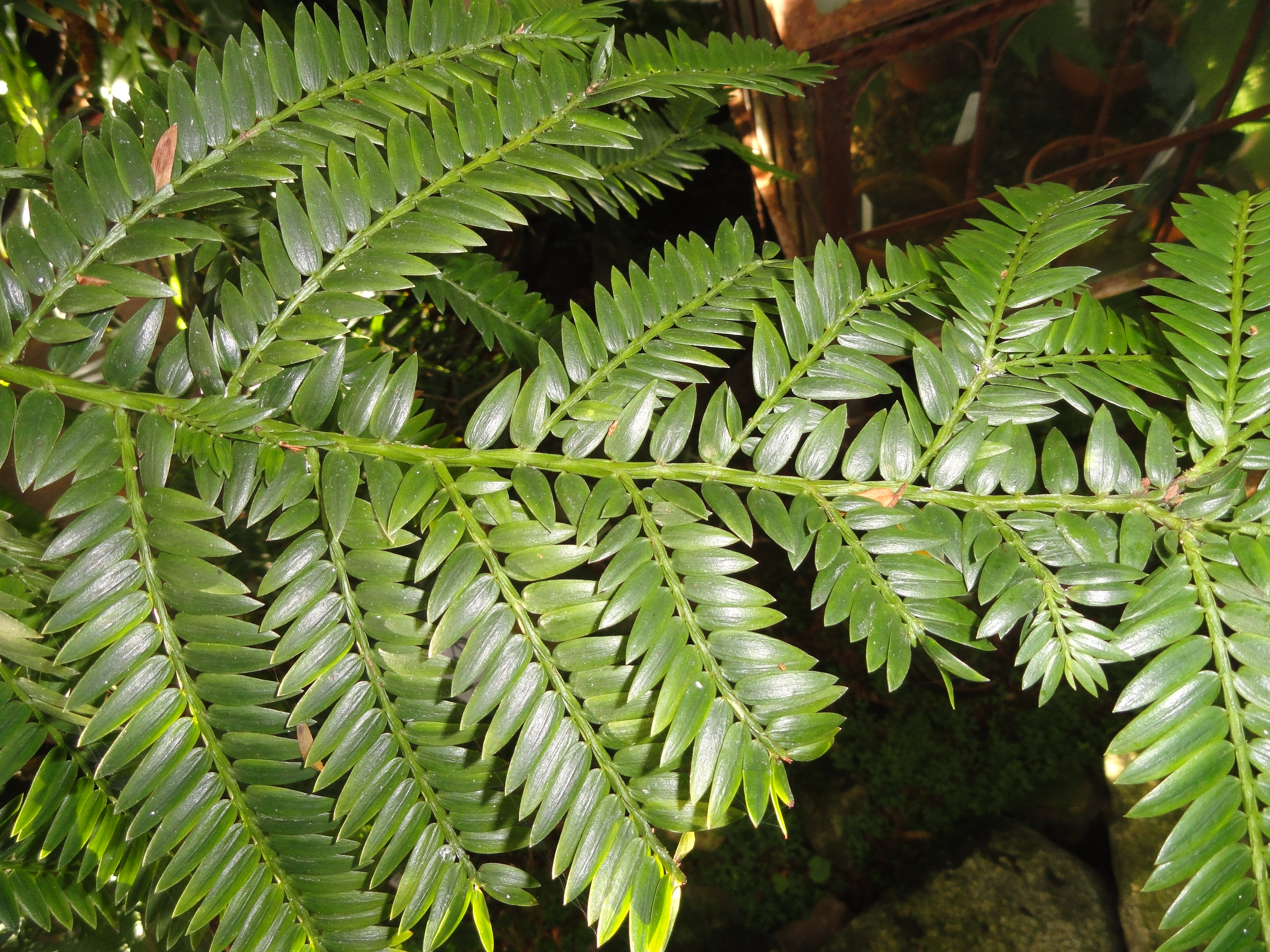 Botanical specimen in the Lyman Plant House, Smith College, Northampton, Massachusetts, USA.